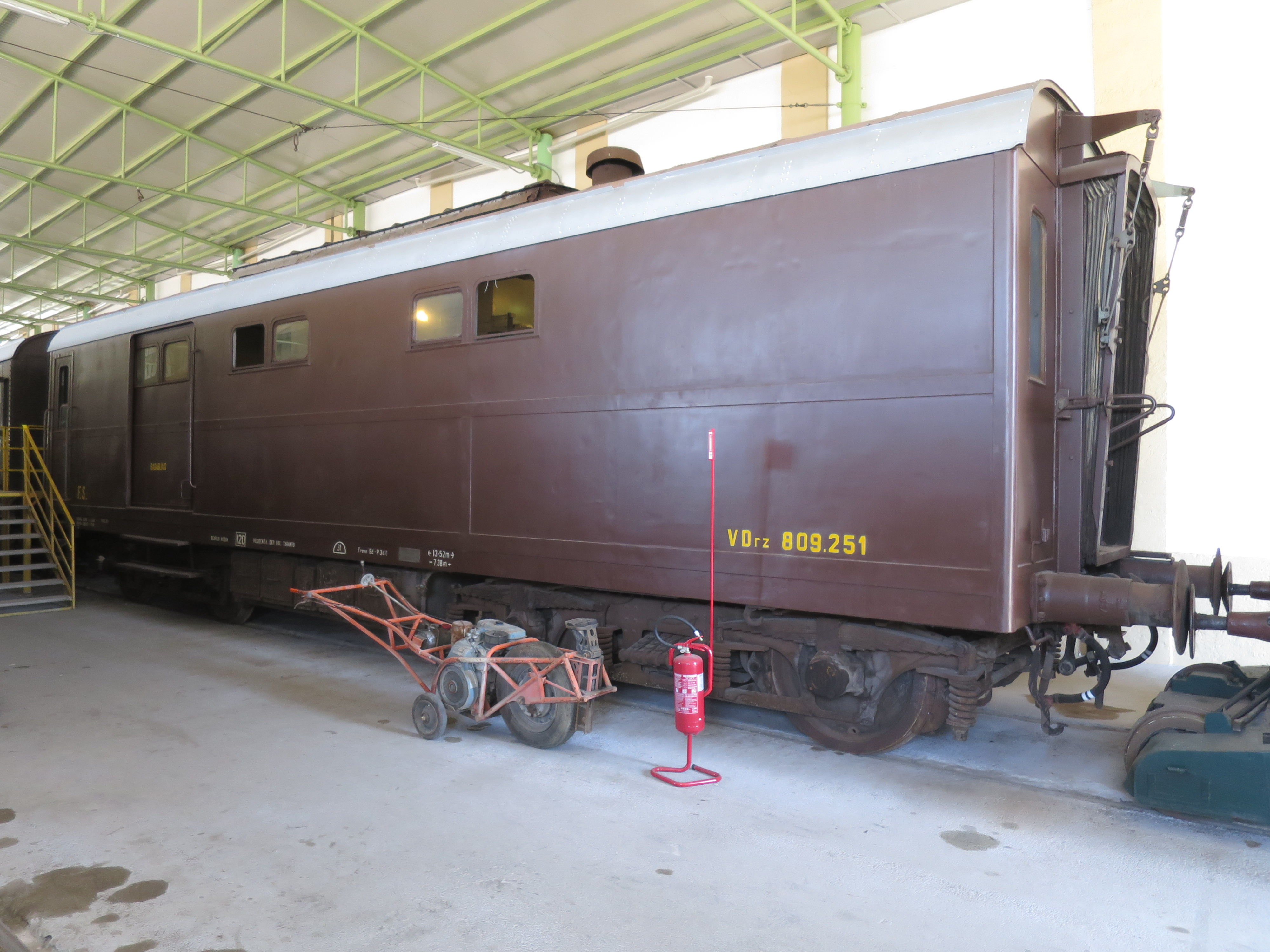 Heating car of Italian State Railway